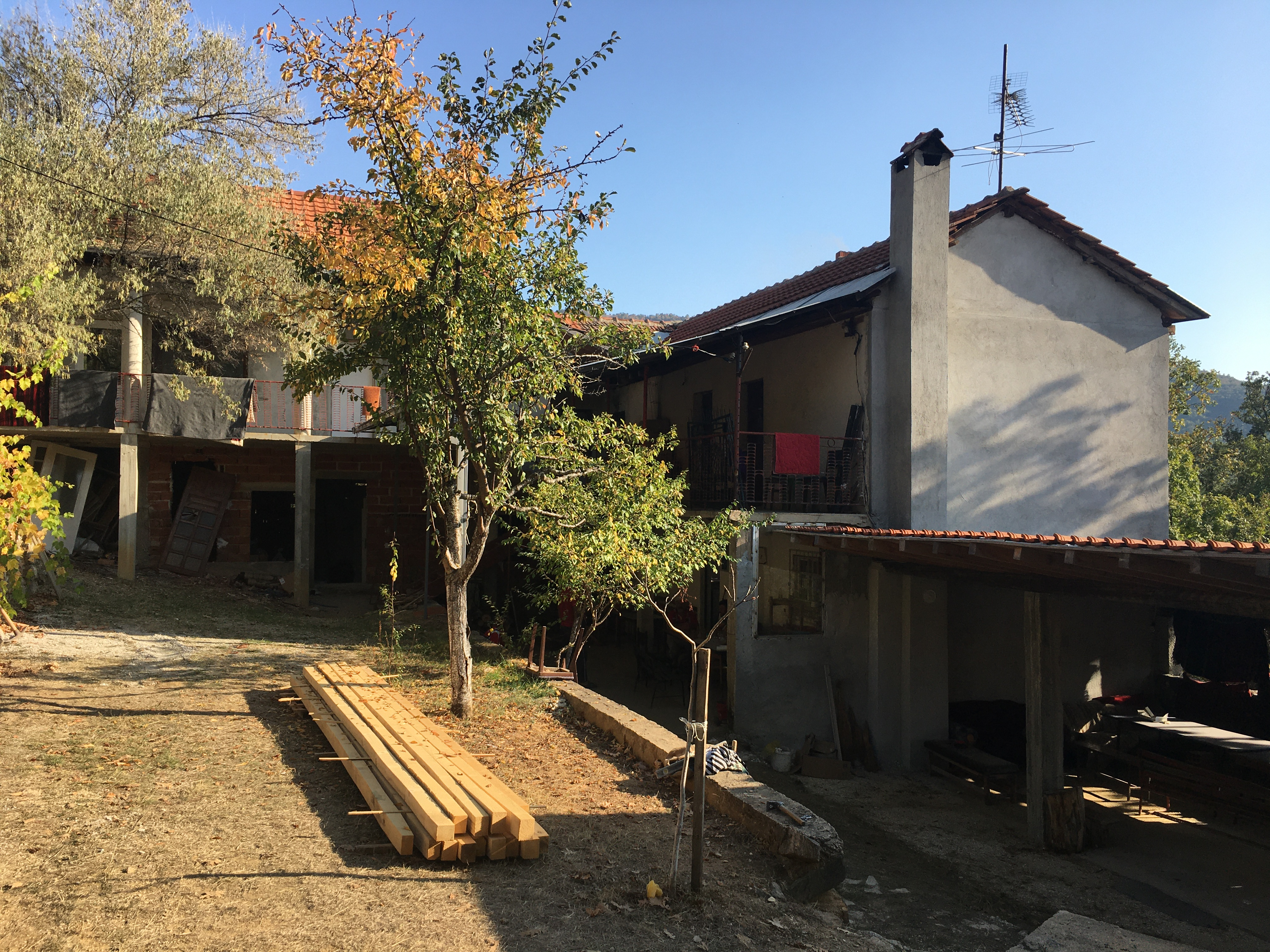 A konak in the Gostiražni Monastery